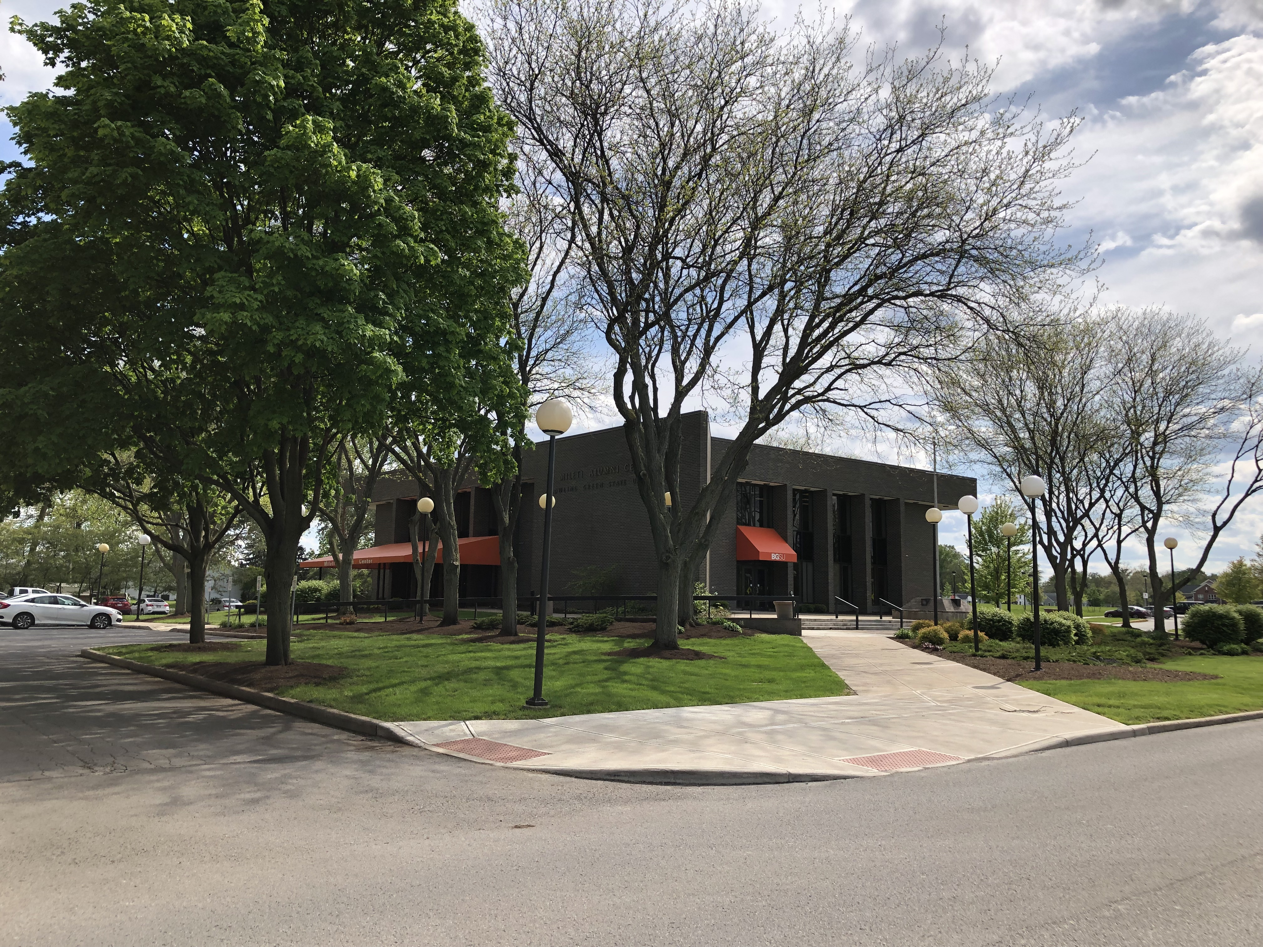 The Mileti Alumni Center at BGSU